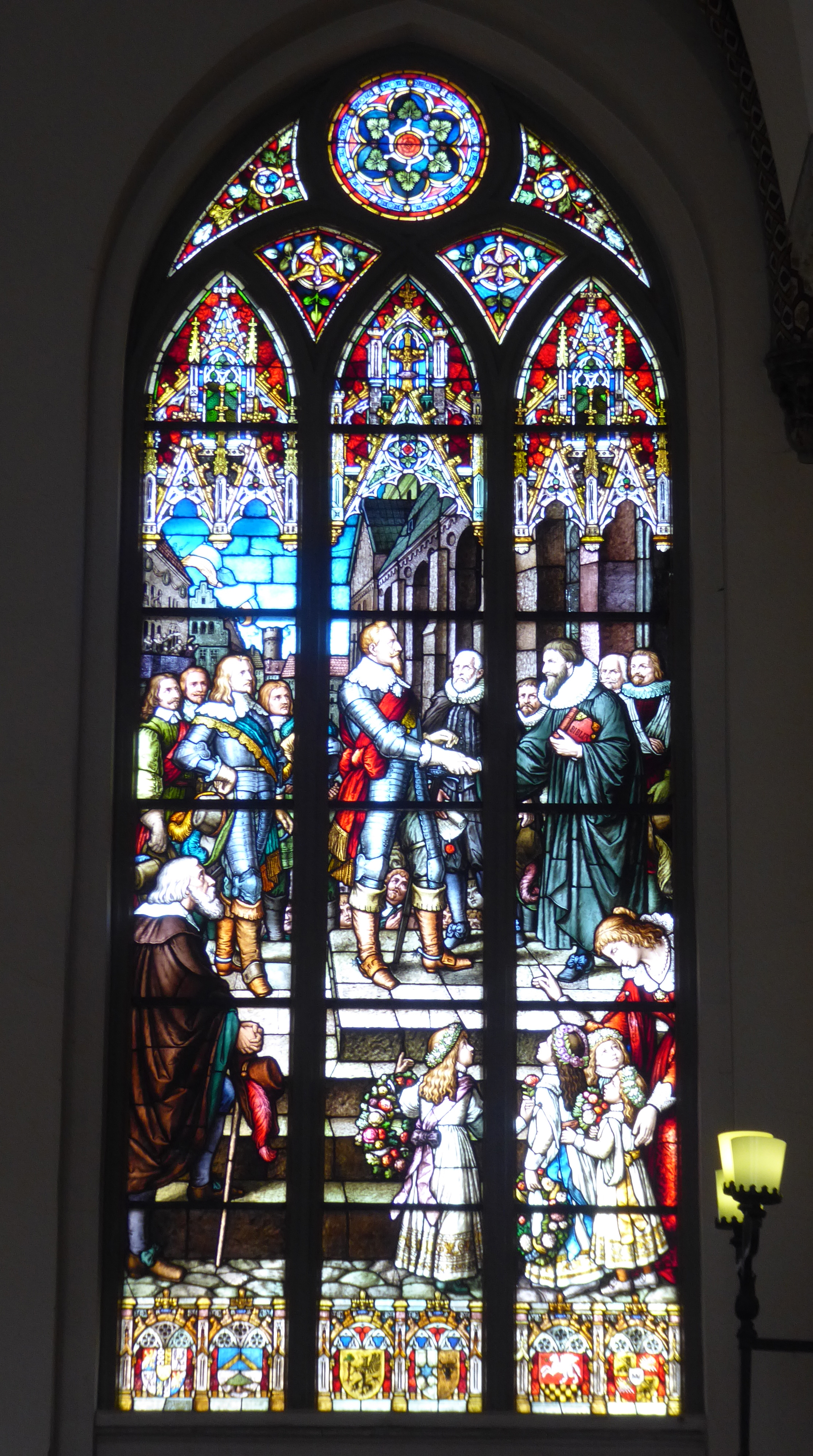 Stained-glass window in Riga's Dome Cathedral